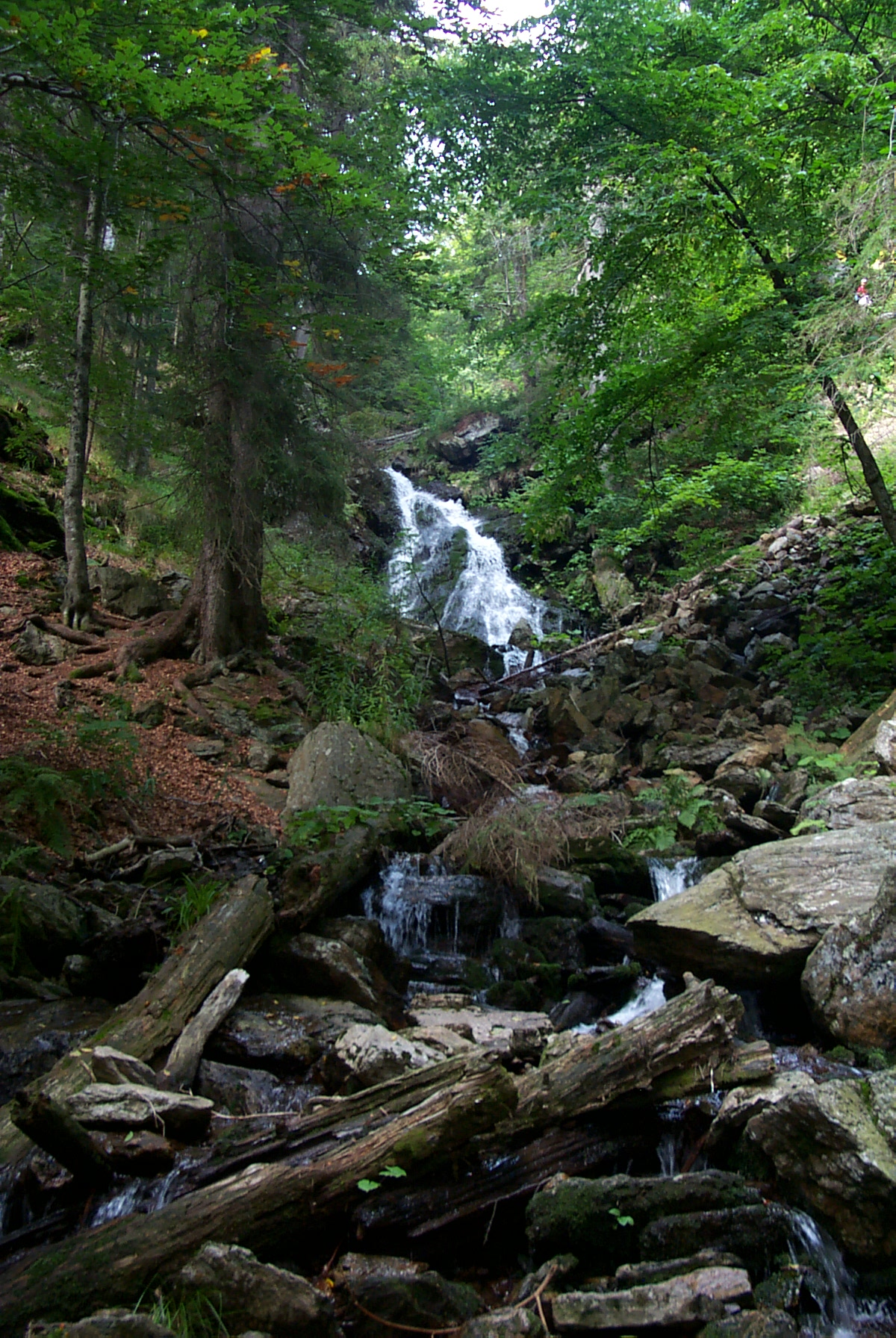 Waterfall near Zwiesel in Bavaria